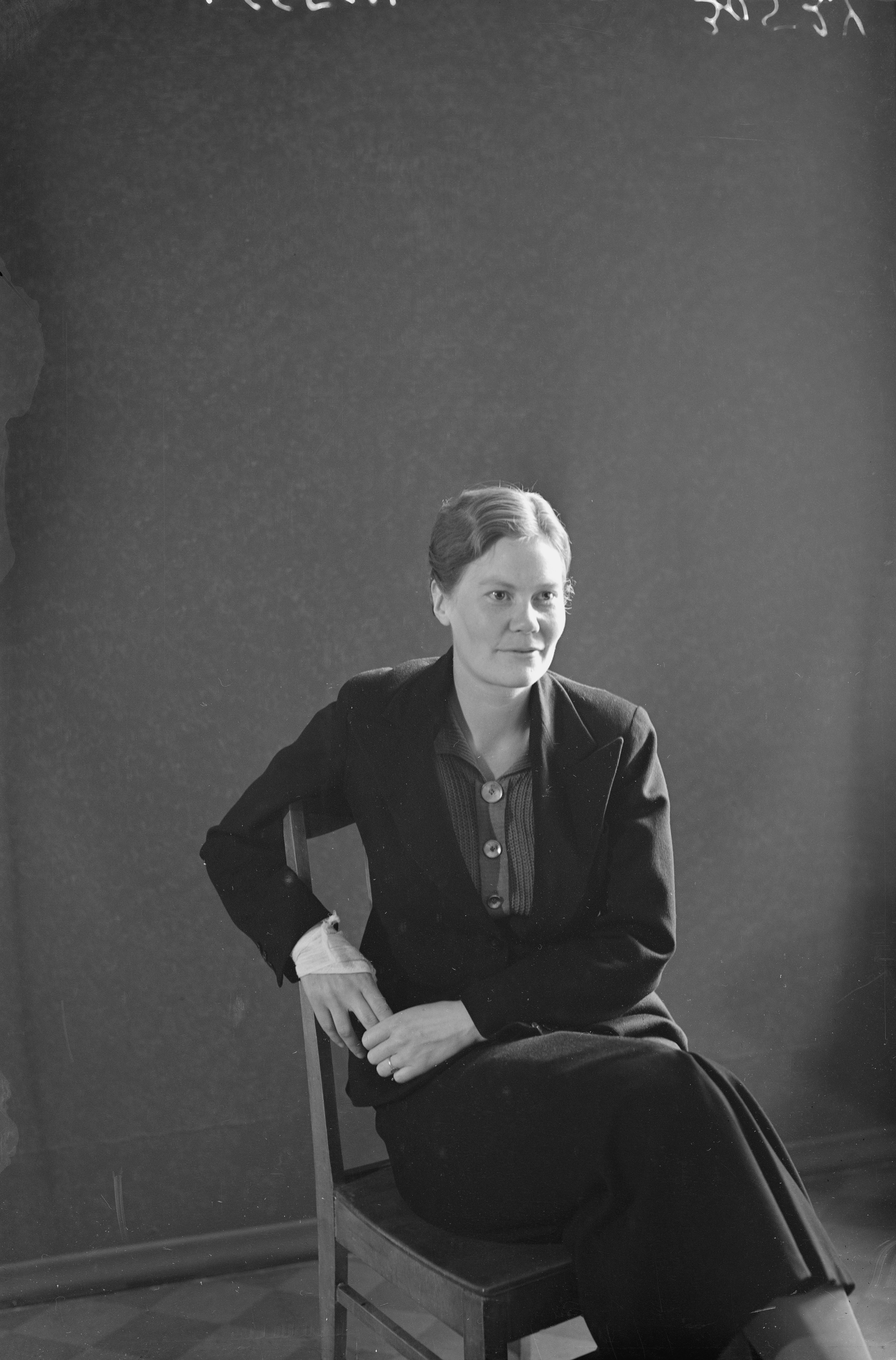 Photograph of the Finnish physiologist Eeva Jalavisto (1909–1966).